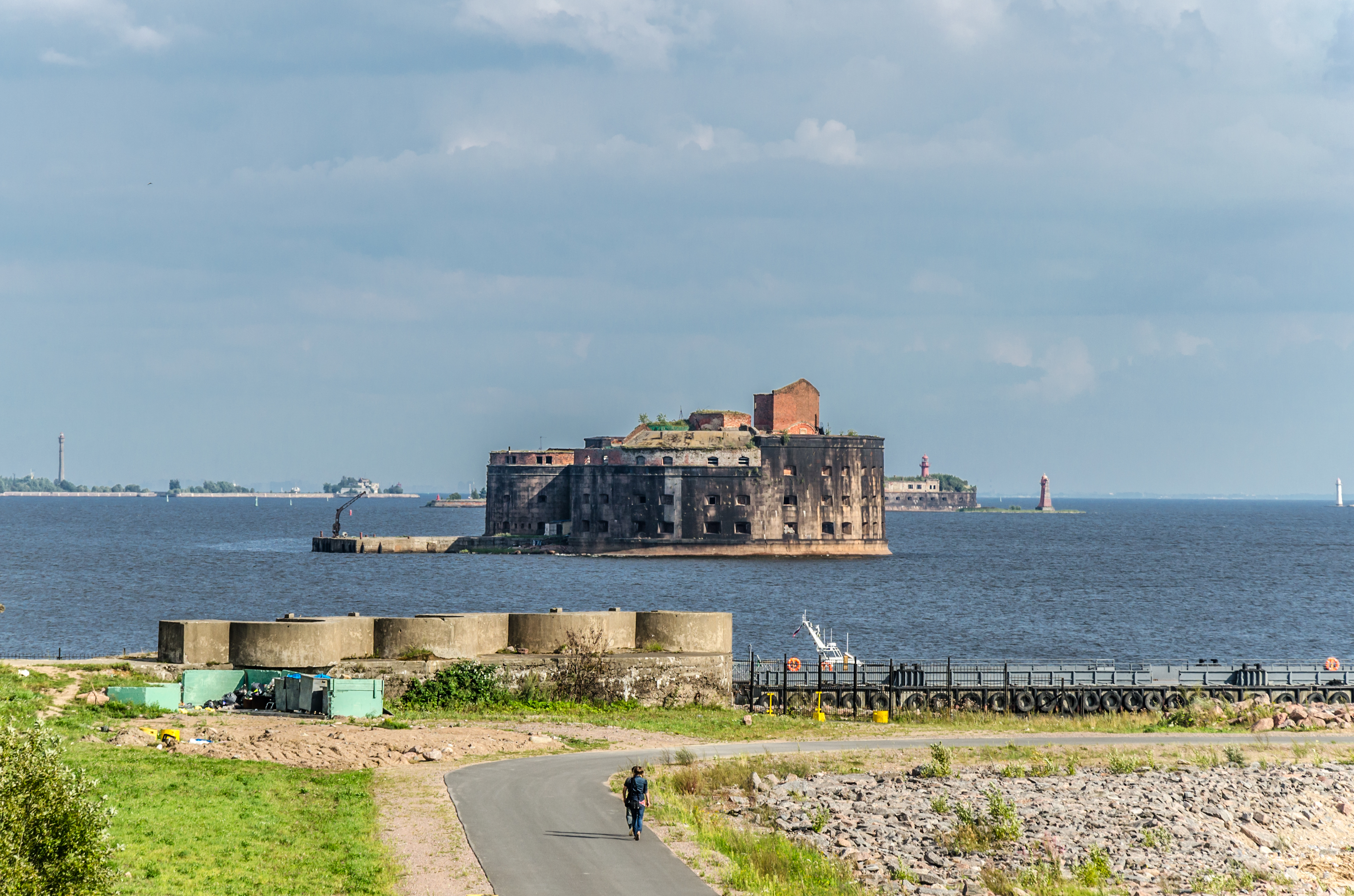 Fort Alexander I (The Pestilential) in Kronstadt